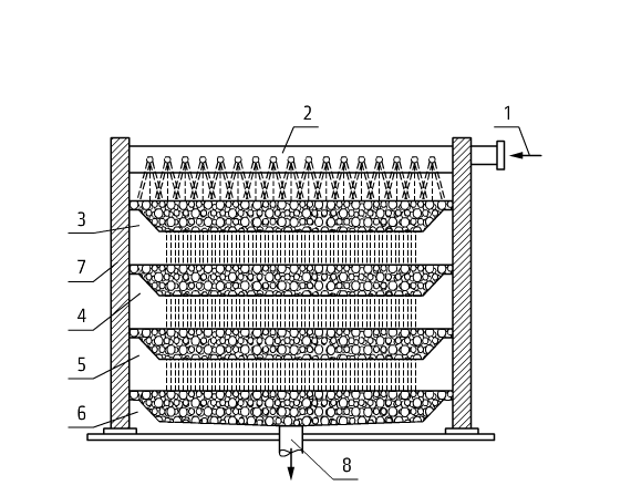 Lentyninio aeratoriaus schema